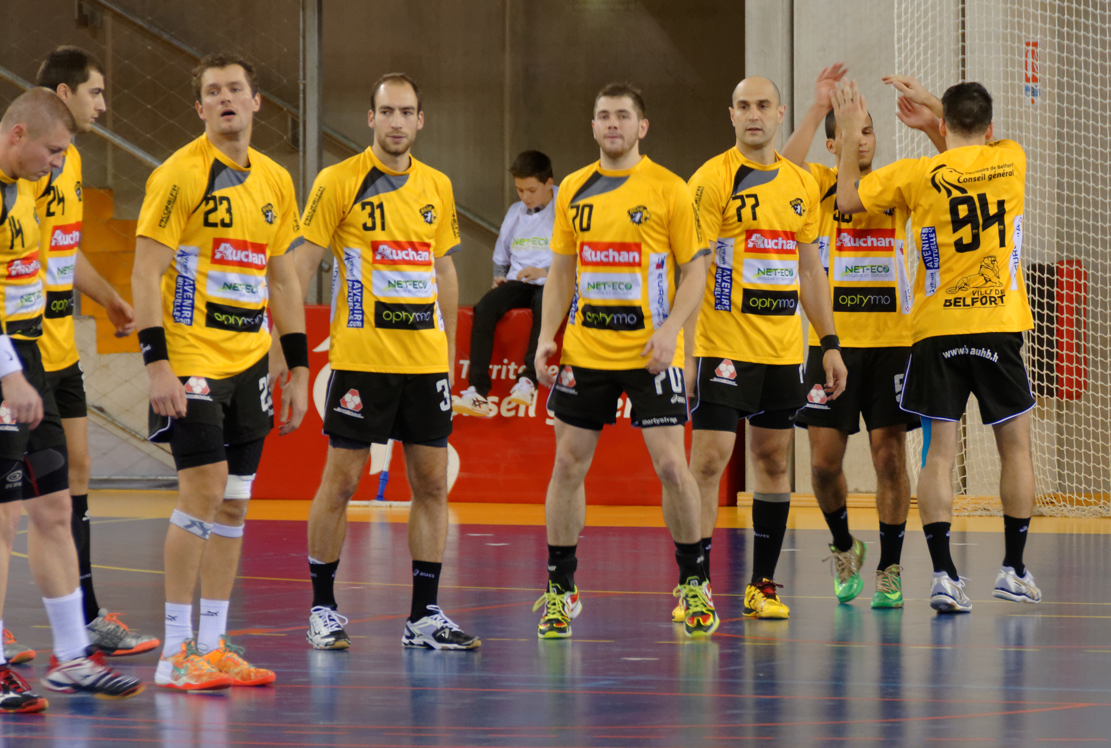 Personality rights warningAlthough this work is freely licensed or in the public domain, the person(s) shown may have rights that legally restrict certain re-uses unless those depicted consent to such uses. In these cases, a model release or other evidence of consent could protect you from infringement claims.